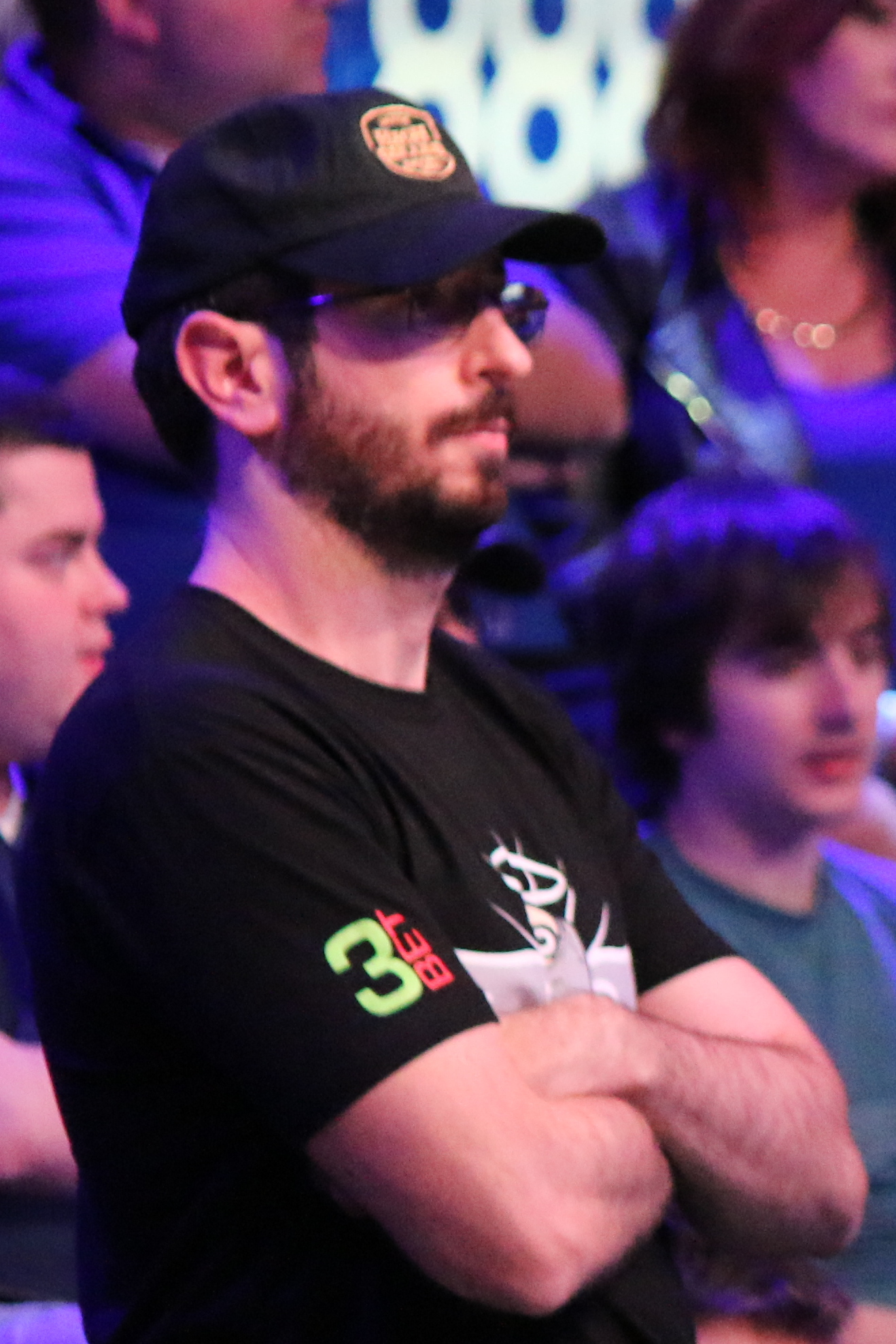 Brian Rast at 2015 World Series of Poker Main Event